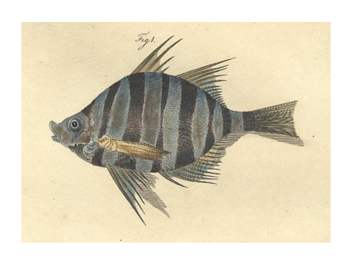 This is a detail of File:Pungent chaetodon John White.jpg, plate 39 of John White's 1790 Journal of a Voyage to New South Wales. Plate 39. '1. The Pungent Chaetedon. 2. Granulated Balistes.' Figure 1, captioned "THE LONG-SPINED CHAETODON", CHÆTODON ARMATUS shows a species Enoplosus armatus. The accompanying text states that Chaetodon albescens, corpore, fasciis septem nigris, spinis pinnae dorsalis sex, tertia longissima. Whitish Chaetodon, with seven black stripes on the body. Six spines on the dorsal fin, the third very long. This appears to be a new and very elegant species of the genus Chaetodon. The total length of the specimen was not more than four inches. The colour a silvery white, darker, and of a bluish tinge on the back; the transverse fasciae, or bands, of a deep black; the fins and tail of a pale brown. The third ray or spine of the first dorsal fin is much longer than the rest.